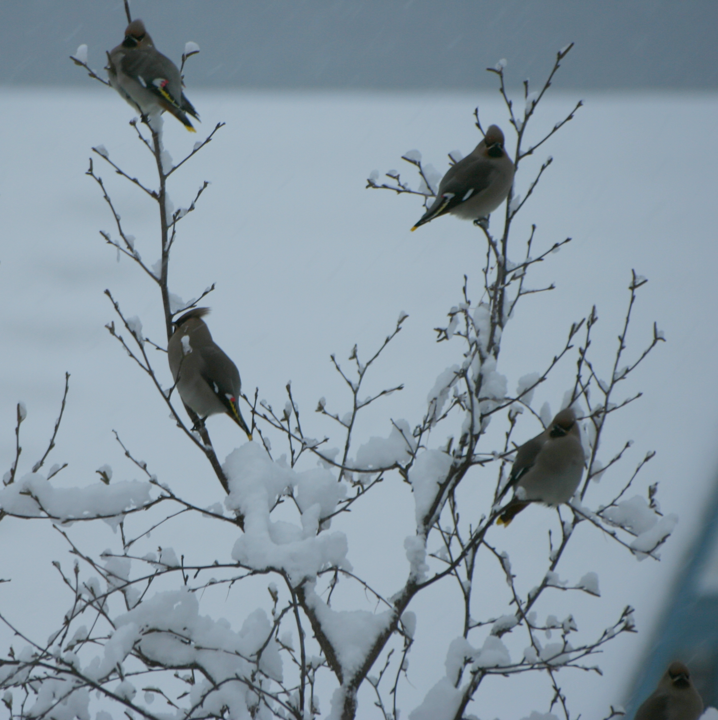 Bombycilla garrulus in a snow-covered bush in Norway.